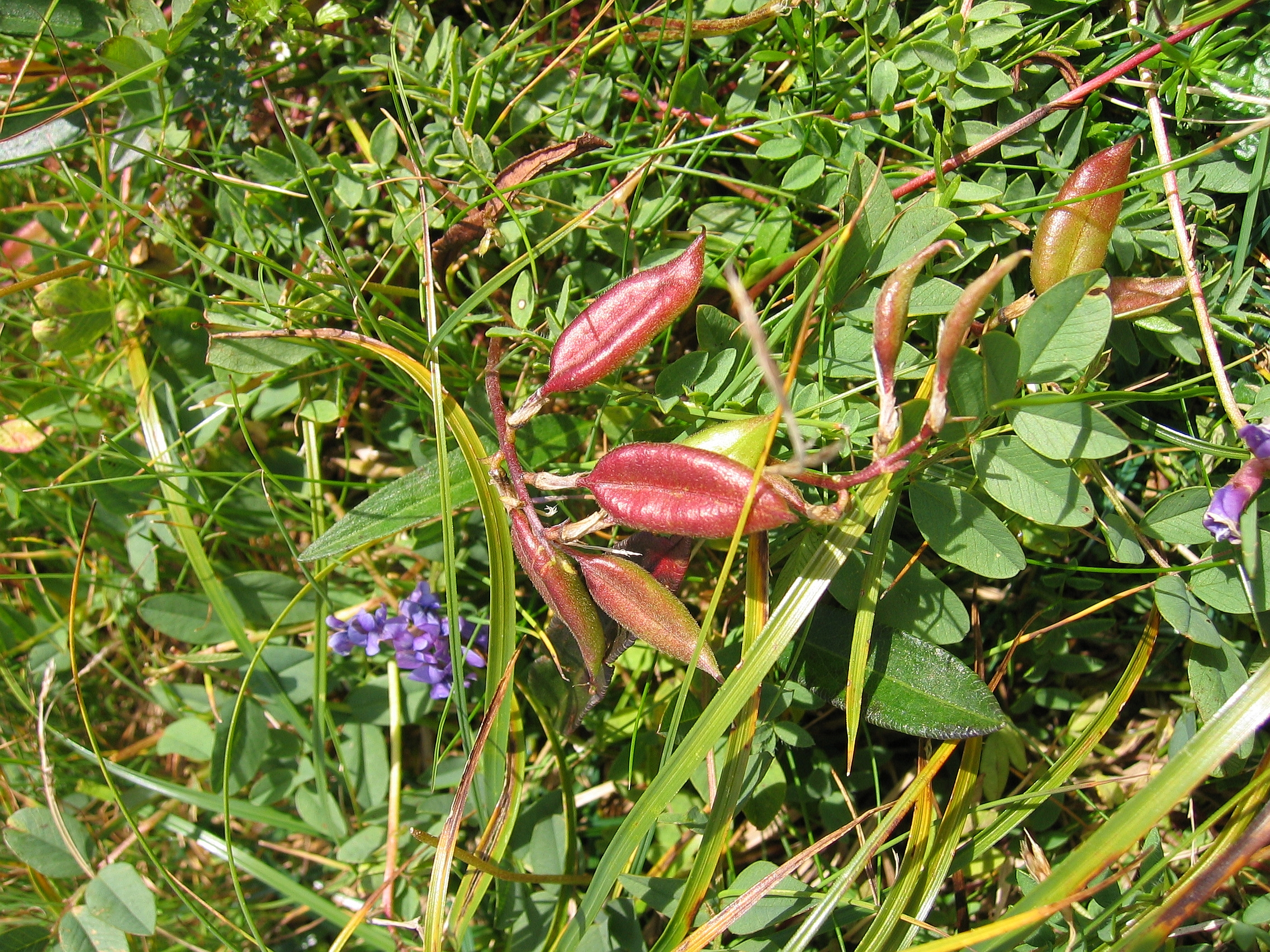 Fruits of Oxytropis_jacquinii, Toter Mann ~ 2000m, Austria